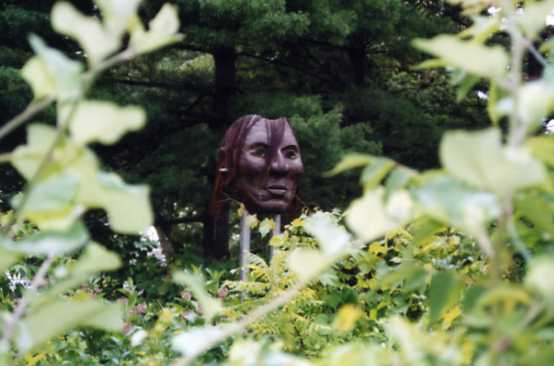 Taoyateduta known as Chief Little Crow, Minnehaha Park, Minneapolis, Minnesota